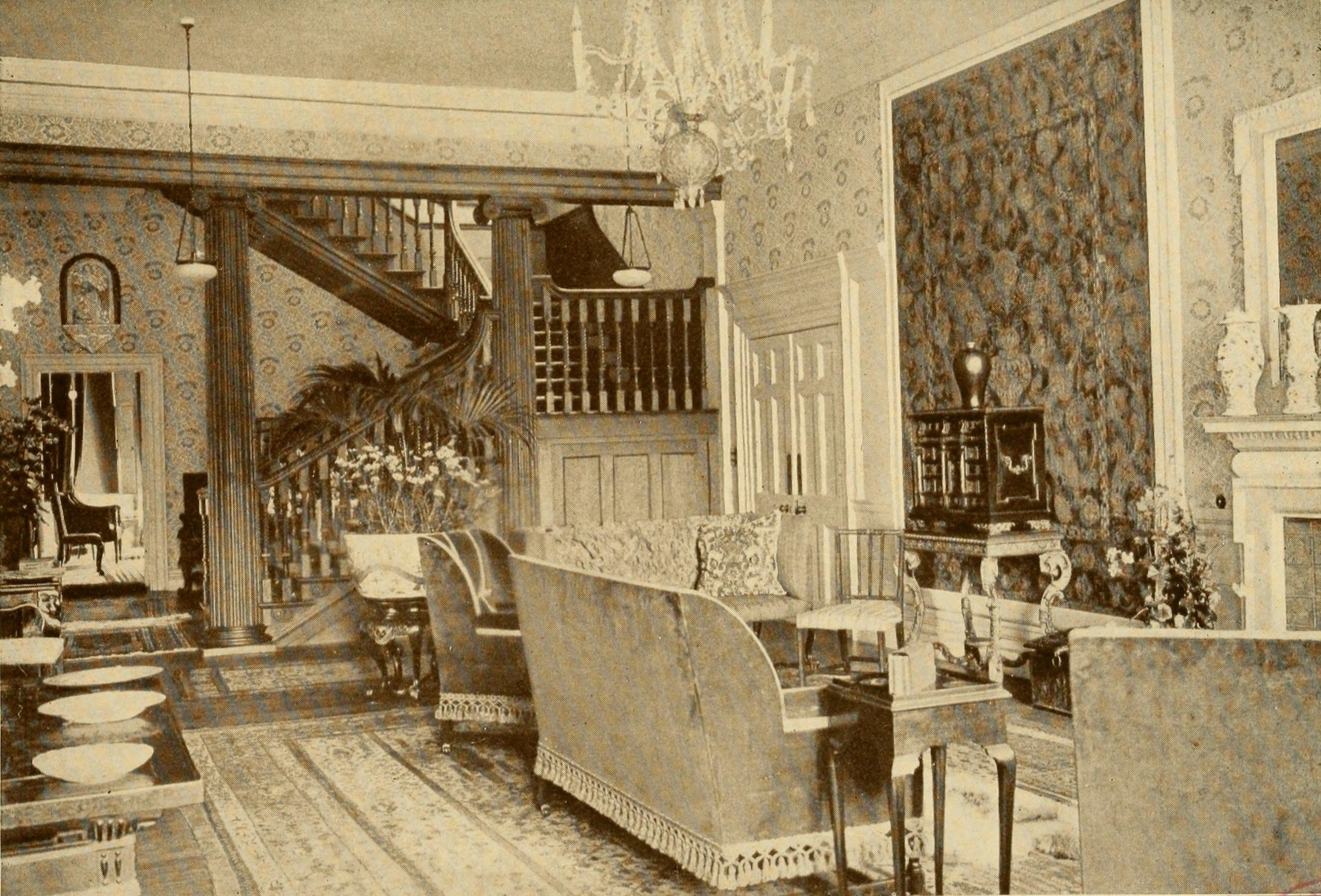 Picture of Stocks, Ward's Country Residence